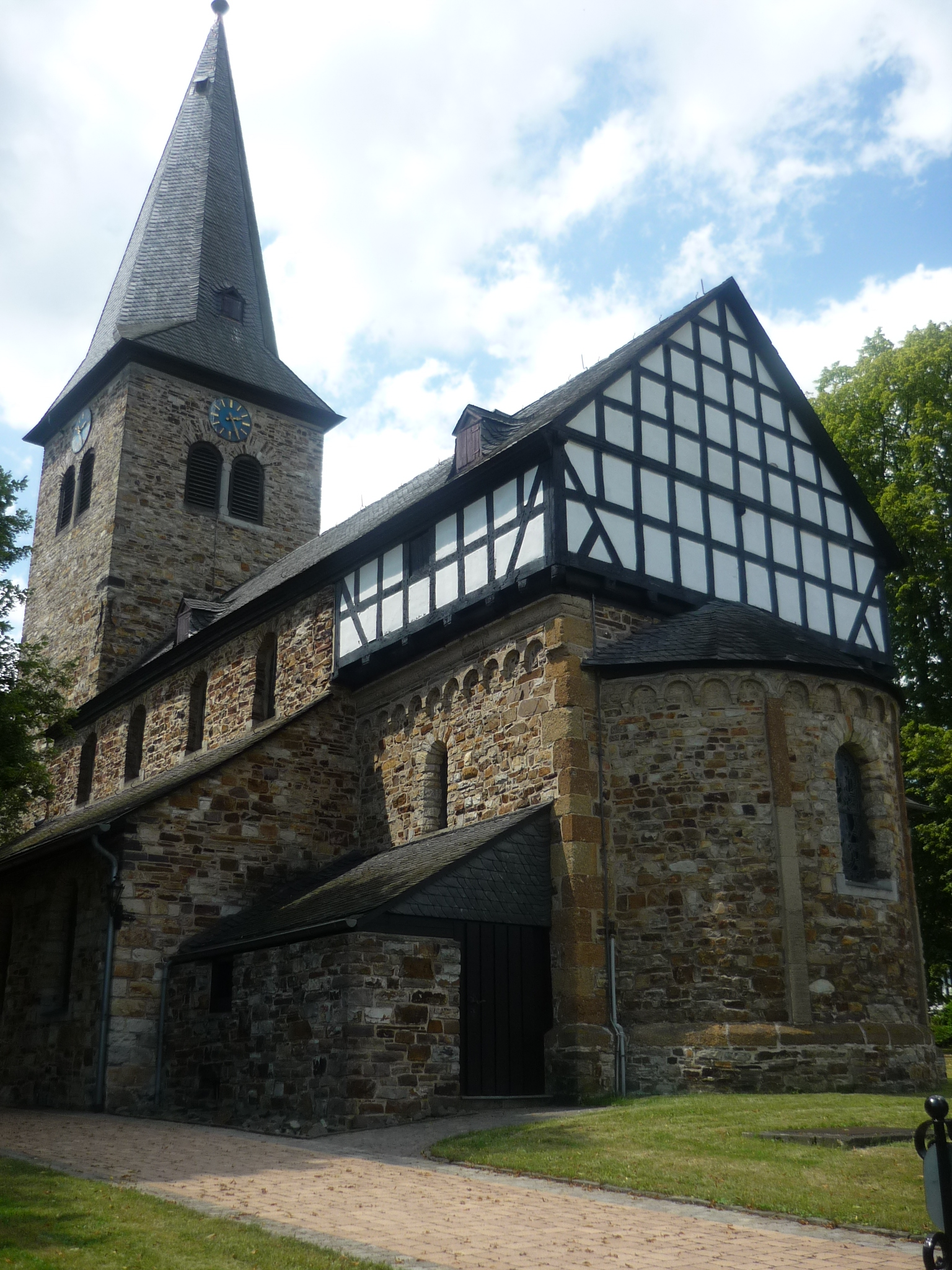 Old church in Mehren Westerwald